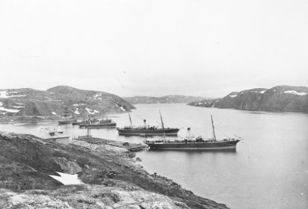 AWM caption : "MURMANSK HARBOUR, NORTH RUSSIA, 1918 WHERE THE ELOPE FORCE LANDED". Comment : Elope force landed at Archangel, not Murmansk.